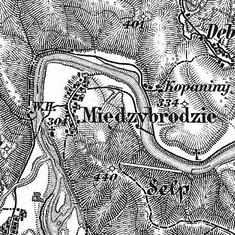 3. Militärische Aufnahme (-1887) Miedzybrodzie am San